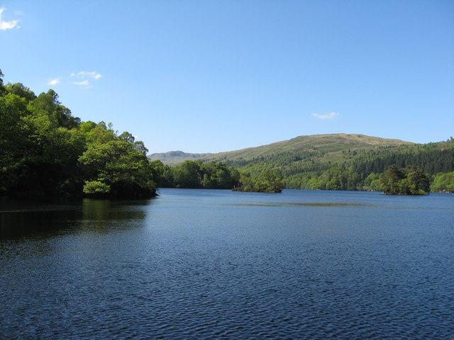 Loch Katrine This is looking up the loch towards Eilean Molach. This loch provides the water supply for the City of Glasgow.